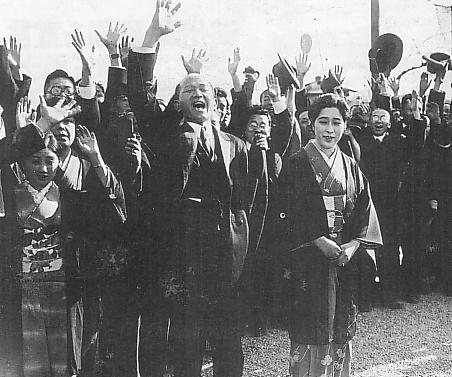 Park Choon-Geum shouts "Banzai" with his supporters